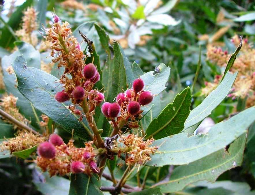 Young brightly-coloured nuts of the Brabejum tree. Cape Town.